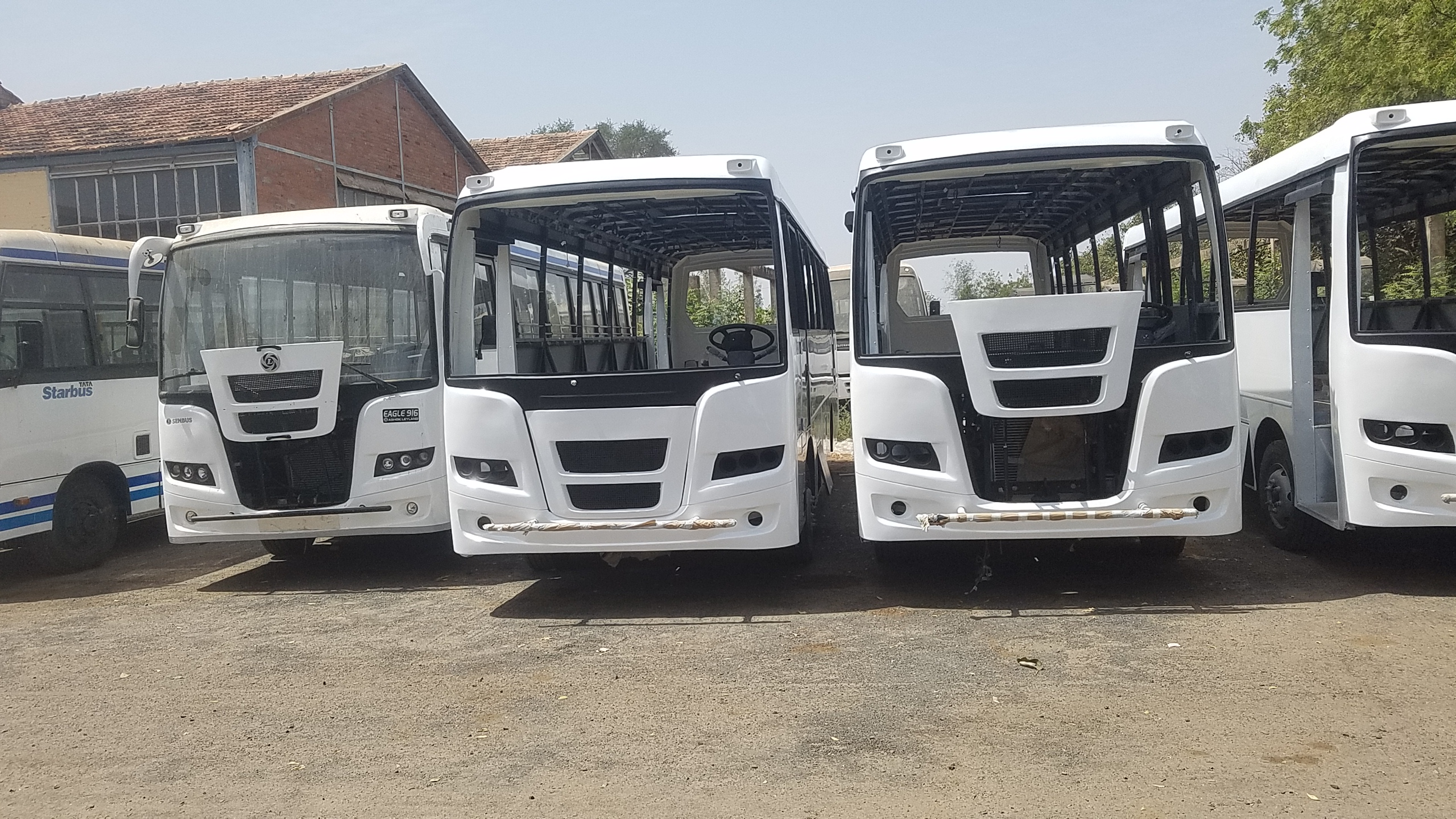 Senbus industrie, The first industrial Bus Assembly unit in West Africa was officially inaugurated by the President of the Abdoulaye Wade Republic Inaugurated in September 2003. The fruit of a Senegalese Indo partnership will generate some 250 jobs, its objective is to produce 600 Vehicles per year for National and Sub-regional needs. This is an image with the theme "Africa on the Move or Transport" from: Senegal